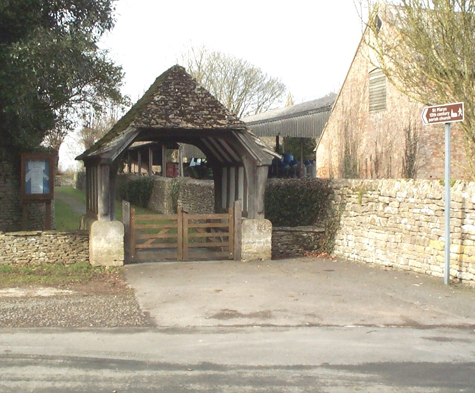 Lych gate of St. Mary the Virgin parish church in Castle Eaton, Wiltshire, viewed from The Street